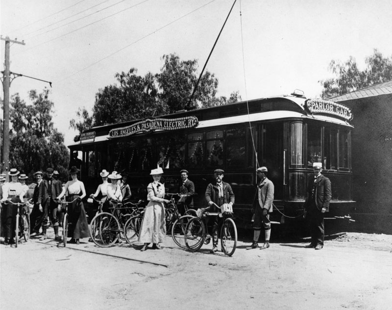 1894: A group of people, some with bicycles, stands beside a Los Angeles & Pasadena Railway Company parlor car at the Altadena station. The parlor car was designed exclusively for scenic excursions to Pasadena and Altadena. Also used on the Balloon Route.